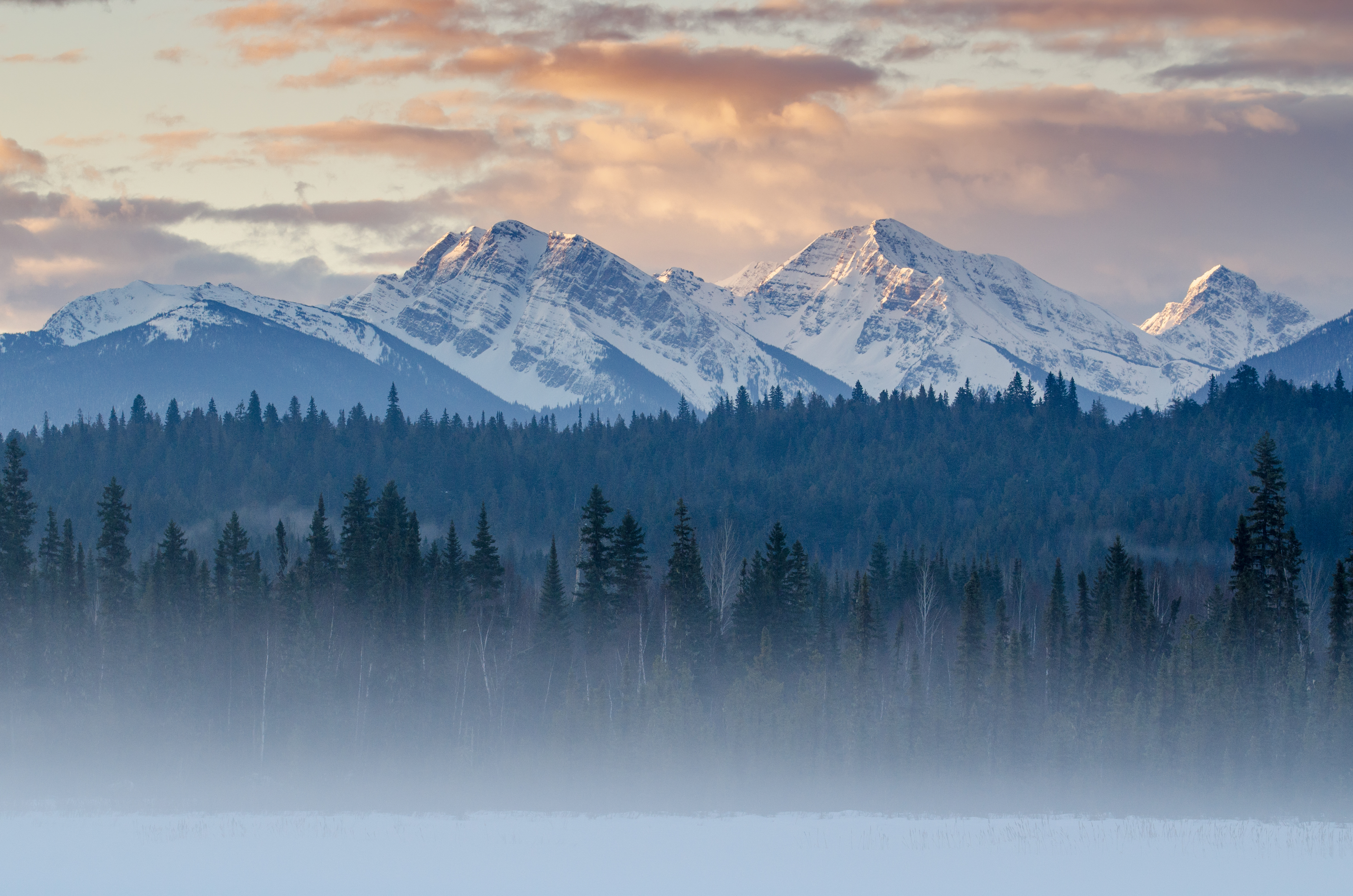 Lake in Dome Creek, British Columbia, Canada, April 2019